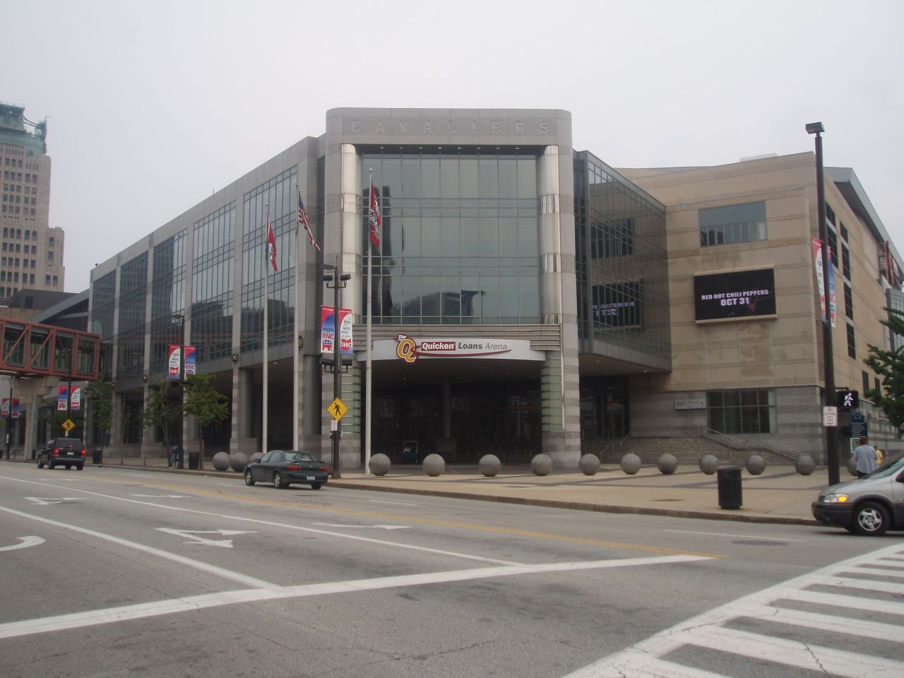 Quicken Loans Arena, Cleveland, OH